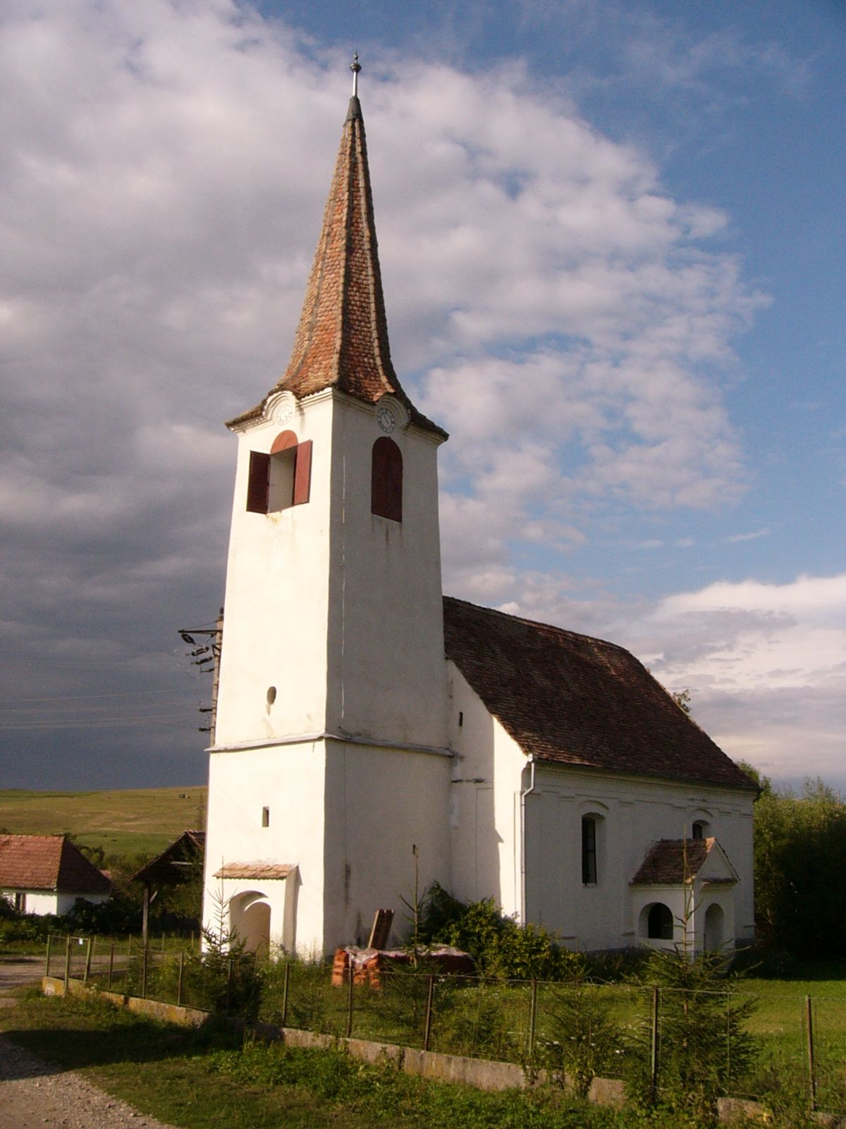 The Unitarian church in Nicoleni (Hungarian: Székelyszentmiklós) in Harghita County, Transylvania, Romania